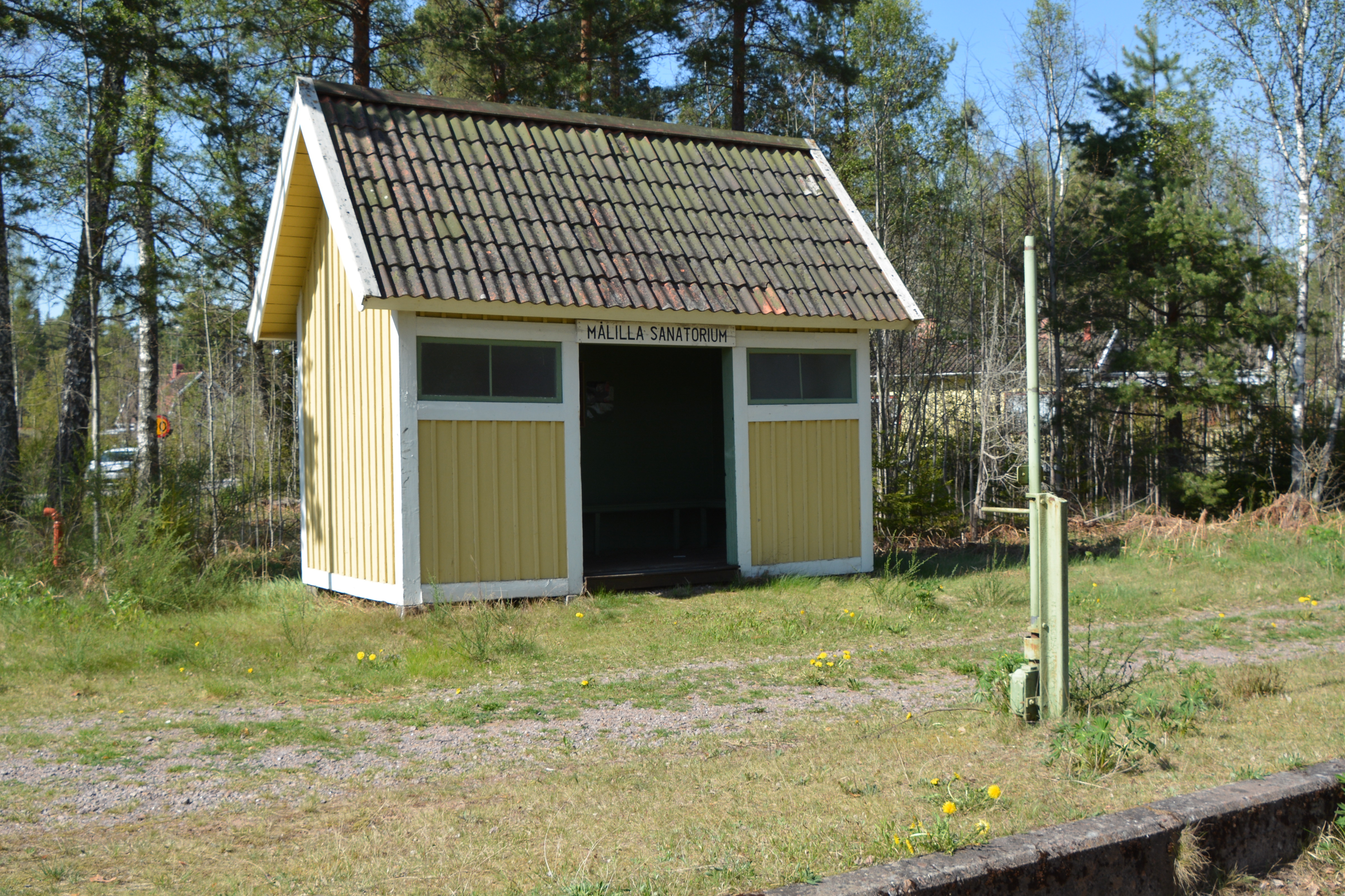 Målilla sanatoriums hållplats, Målillla.